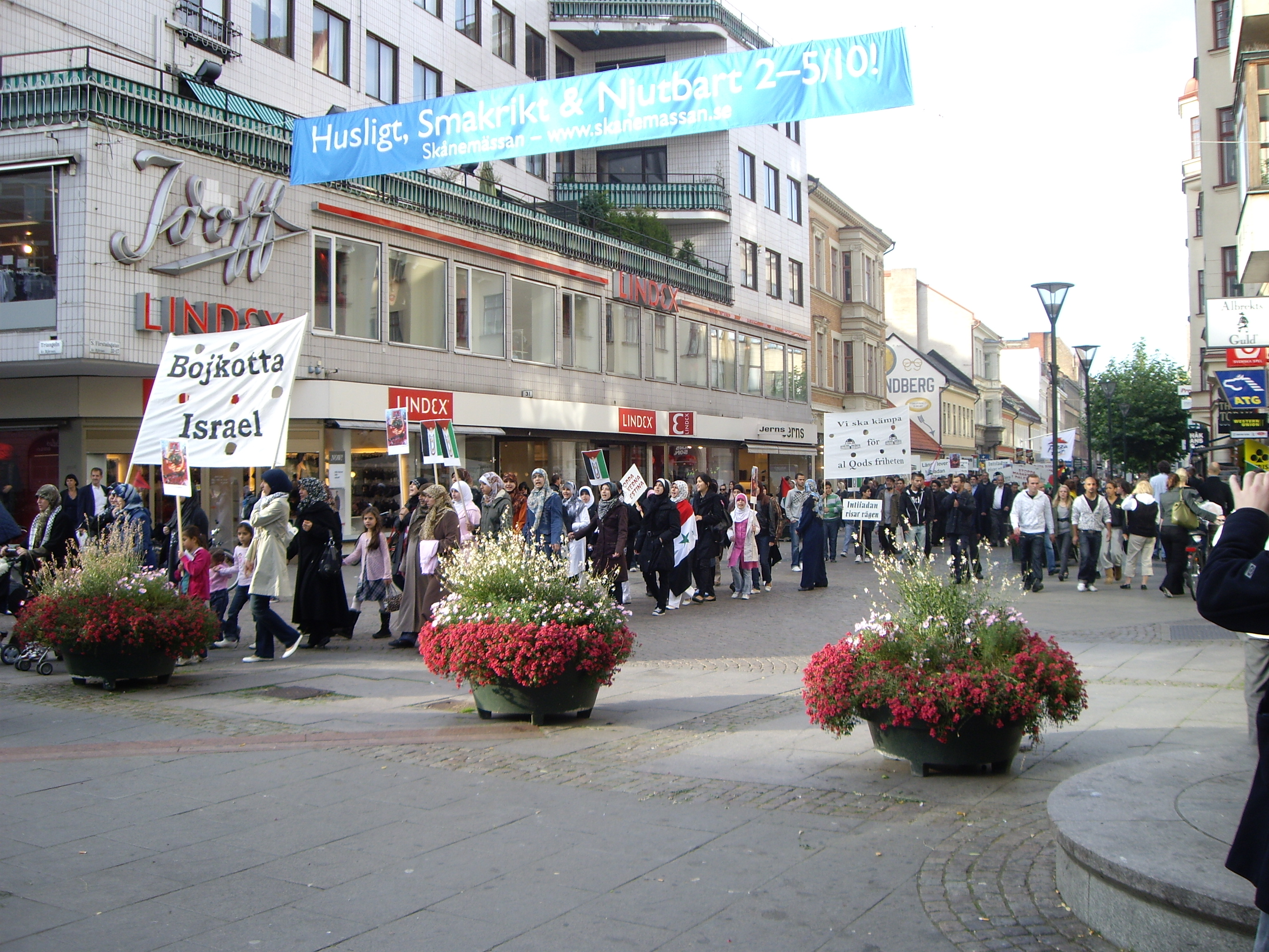 International Day of Quds march in Malmö, 2008-09-27.